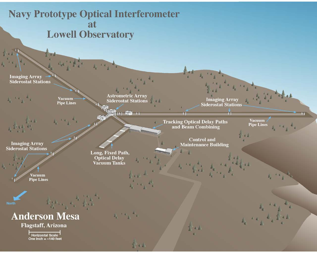 depiction of the layout of NPOI at NOFS (at Anderson Mesa)